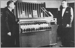 Punch card IBM 80 sorter at US Federal Highway Administration 1961. Original caption: Harry Guinivan, Chief of BPR's Data Processing Branch, and Rex Brown, Clief, Operations Section, Data Processing Branch, demonstrate new transistorized card-sorter machine, the first made availible to the Federal Government. The sorter is an IBM type 84, capable of sorting 2000 cards per minute.